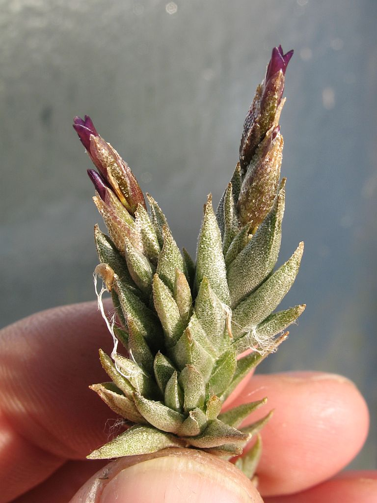 Tillandsia brealitoensis in cultivation at the Botanical Garden of Heidelberg, Germany.